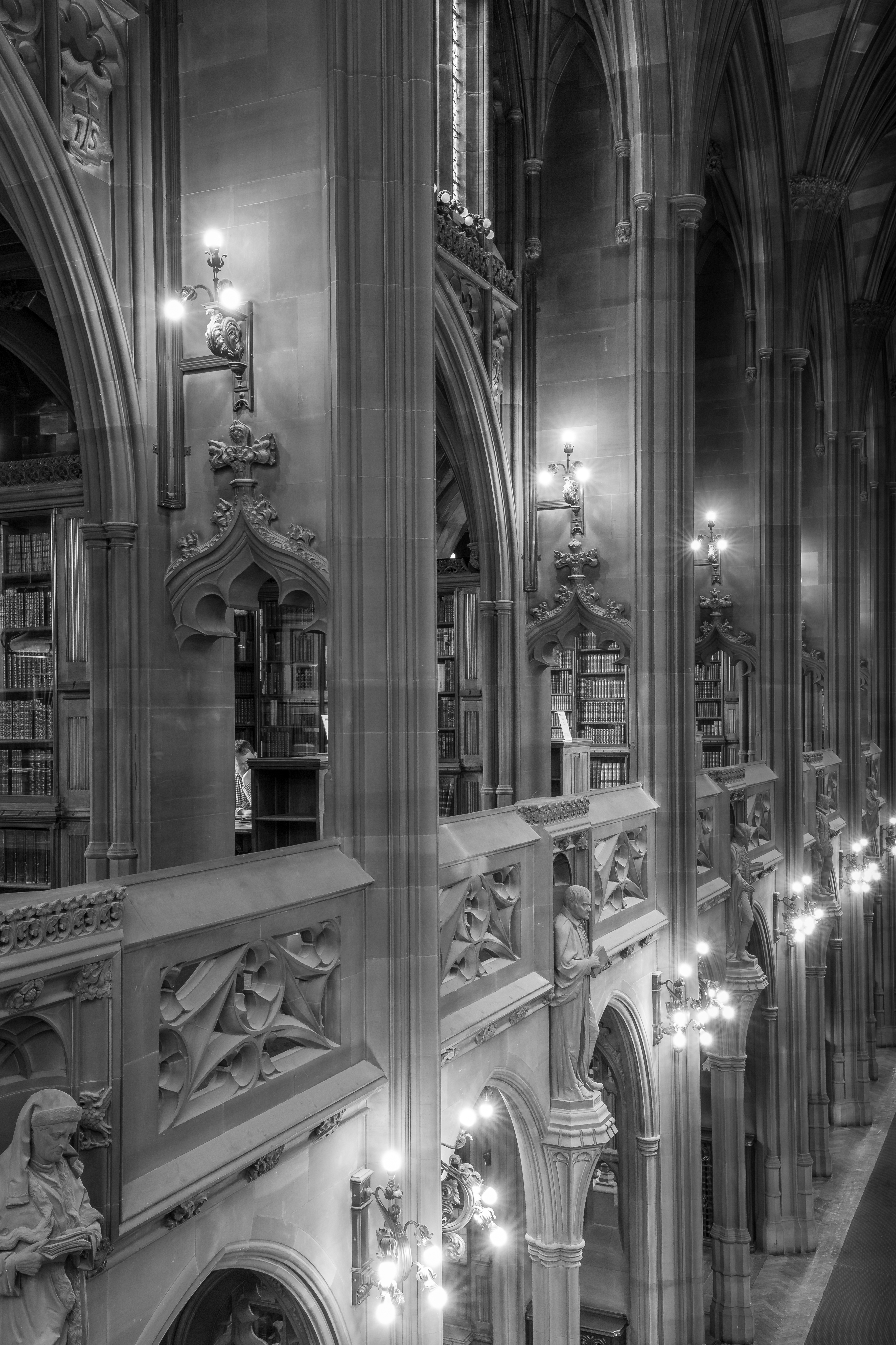 John Rylands Library Wikidata has entry Q1236267 with data related to this item.